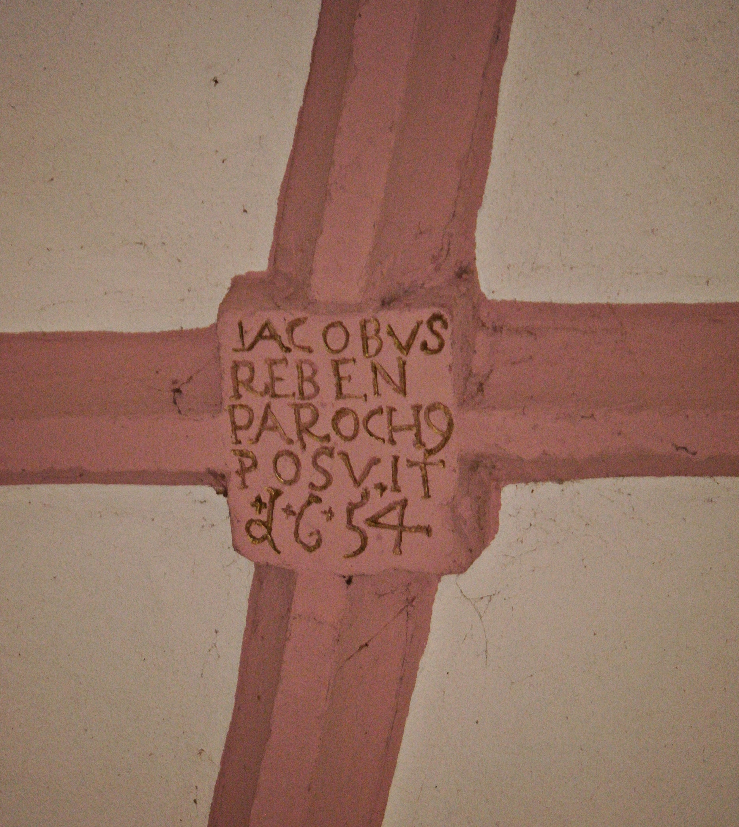 Neuleiningen, Friedhof, Heiligenhäuschen, Gewölbeschluss, 1654